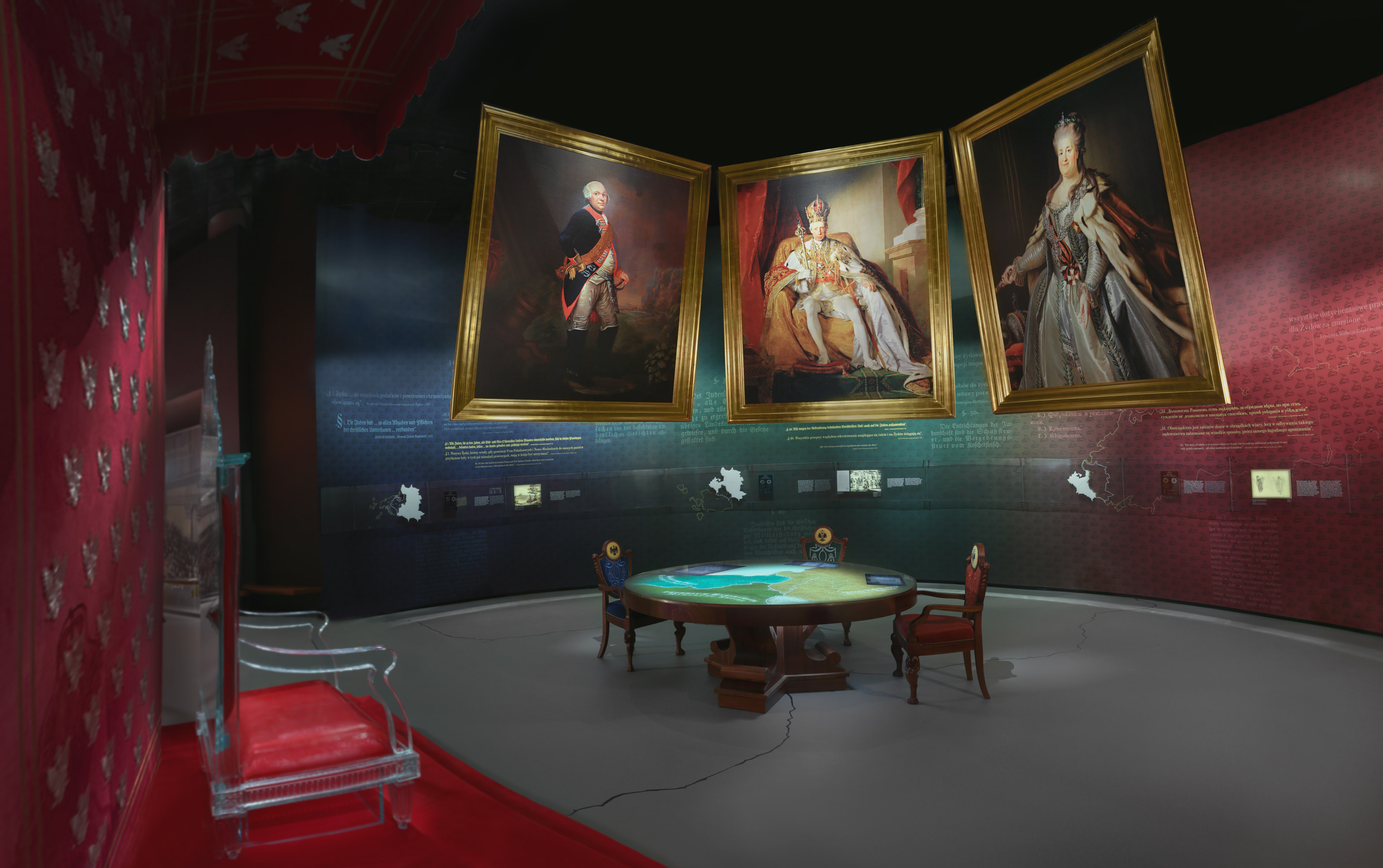 Main exhibition of the Museum of the History of Polish Jews in Warsaw. "Encounters with Modernity" gallery